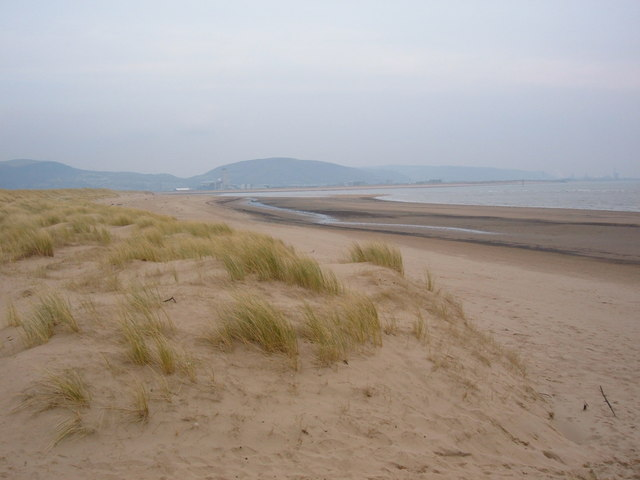 Jersey Marine Beach Jersey Marine beach with Crymlyn Burrows behind. BP Chemicals plant in the background.